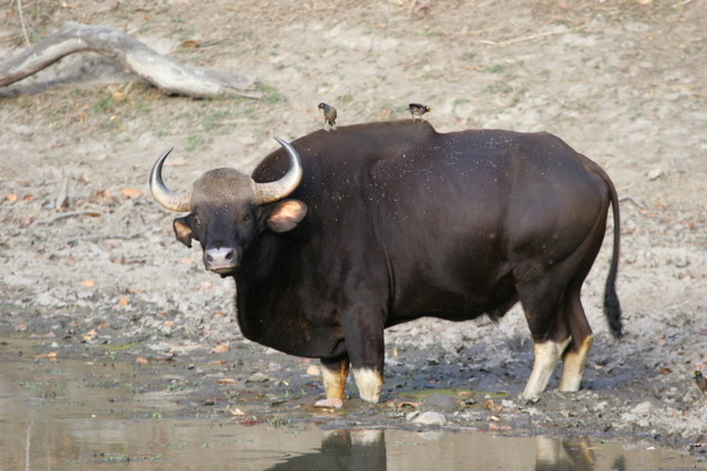 Bison near BAIGA BABA